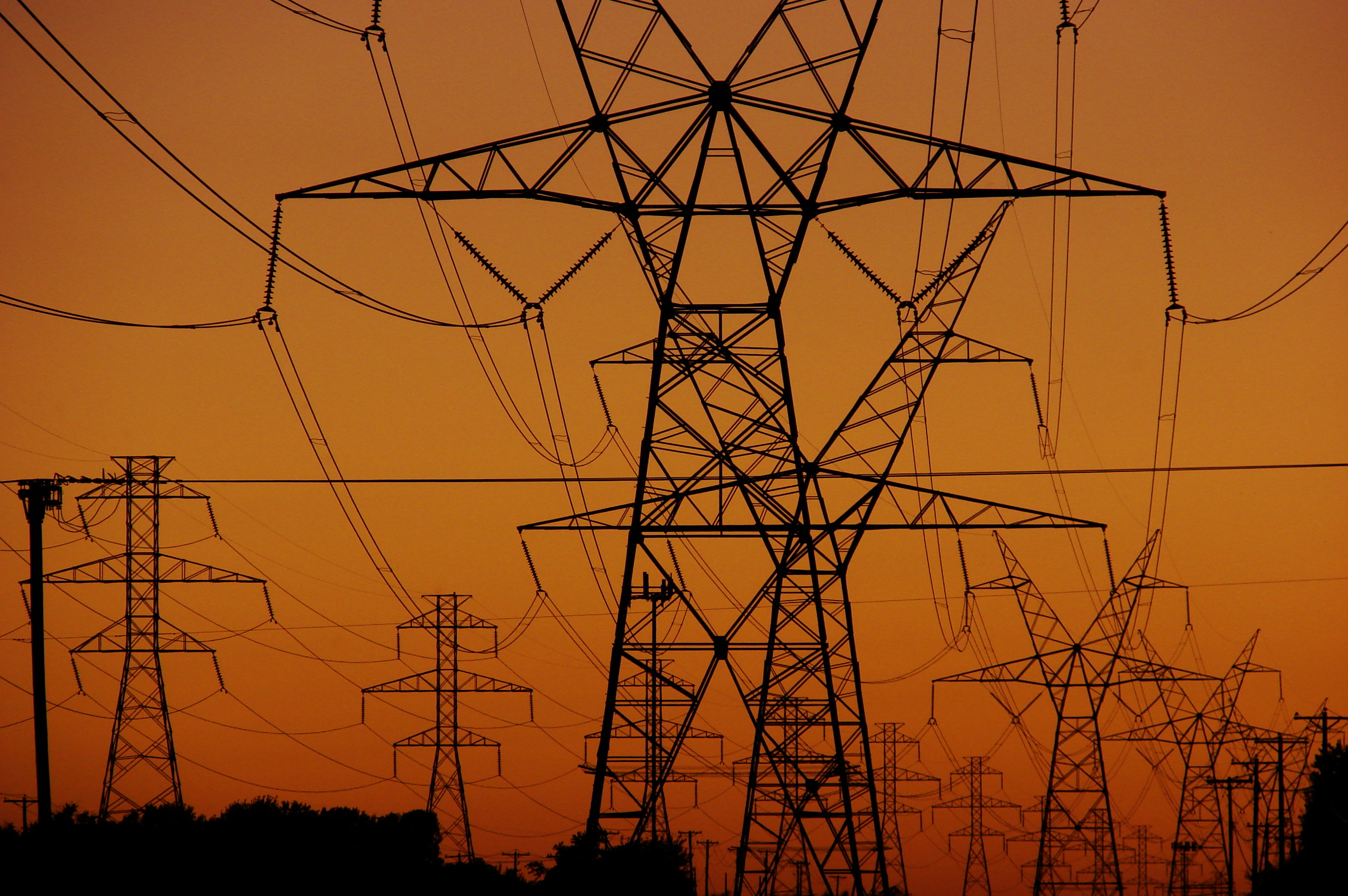 High-tension power transmission towers at twilight in North texas.